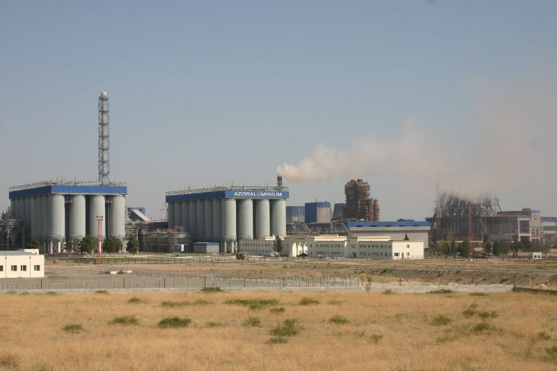 Azəralüminium. An aluminum factory outside of Ganja, western Azerbaijan.